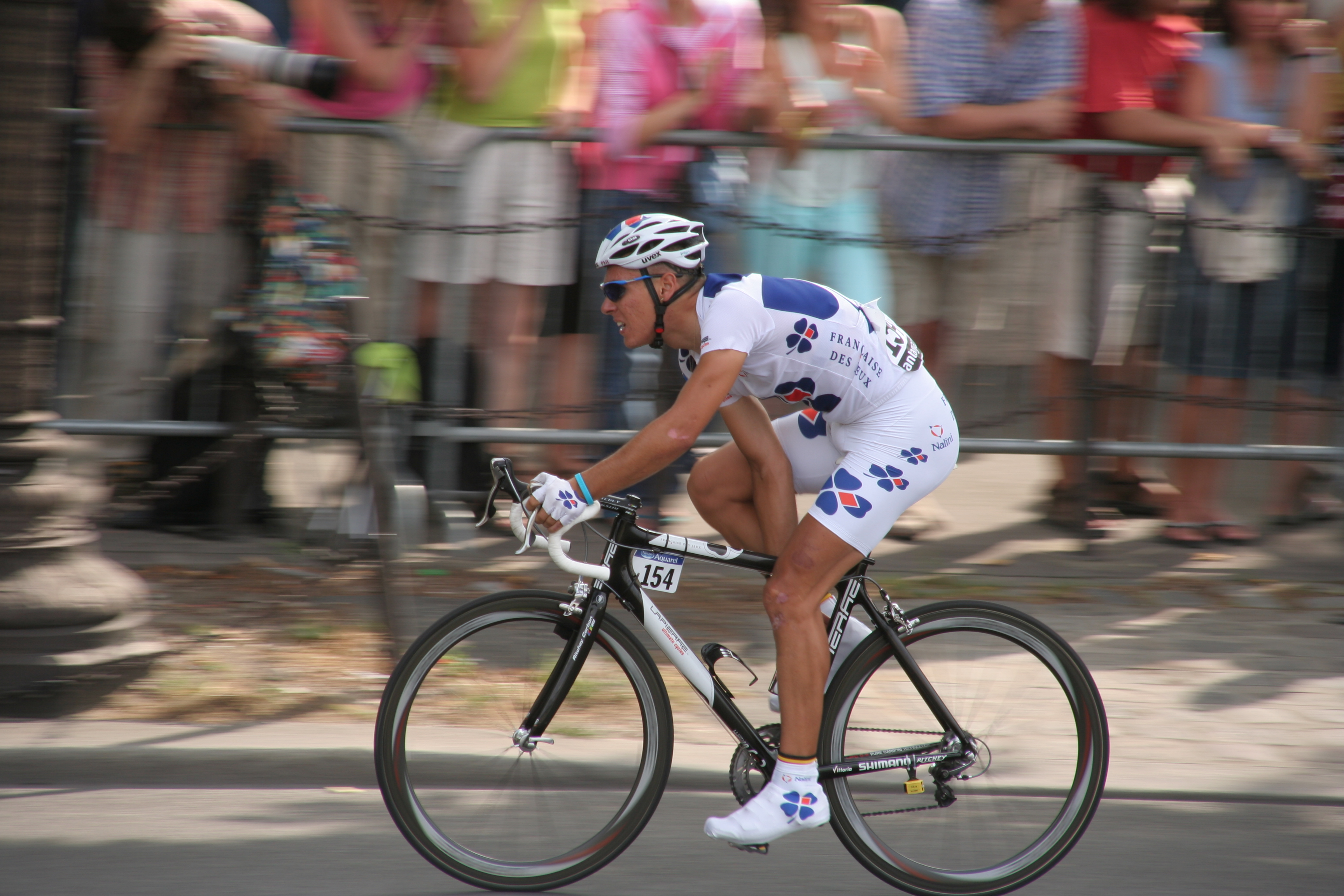 The Belgian cyclist Philippe Gilbert